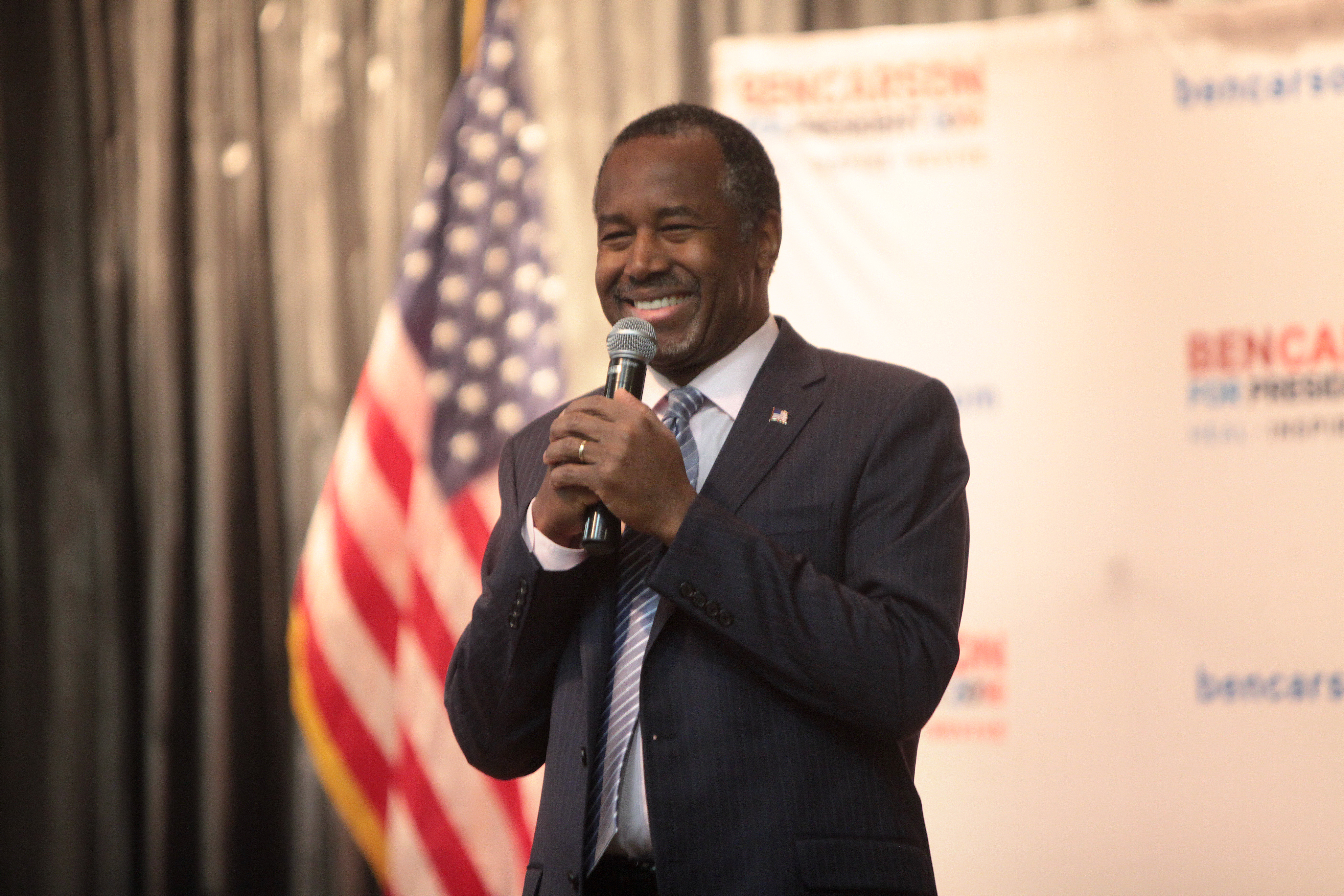 Ben Carson speaking in Summerlin, Nevada.